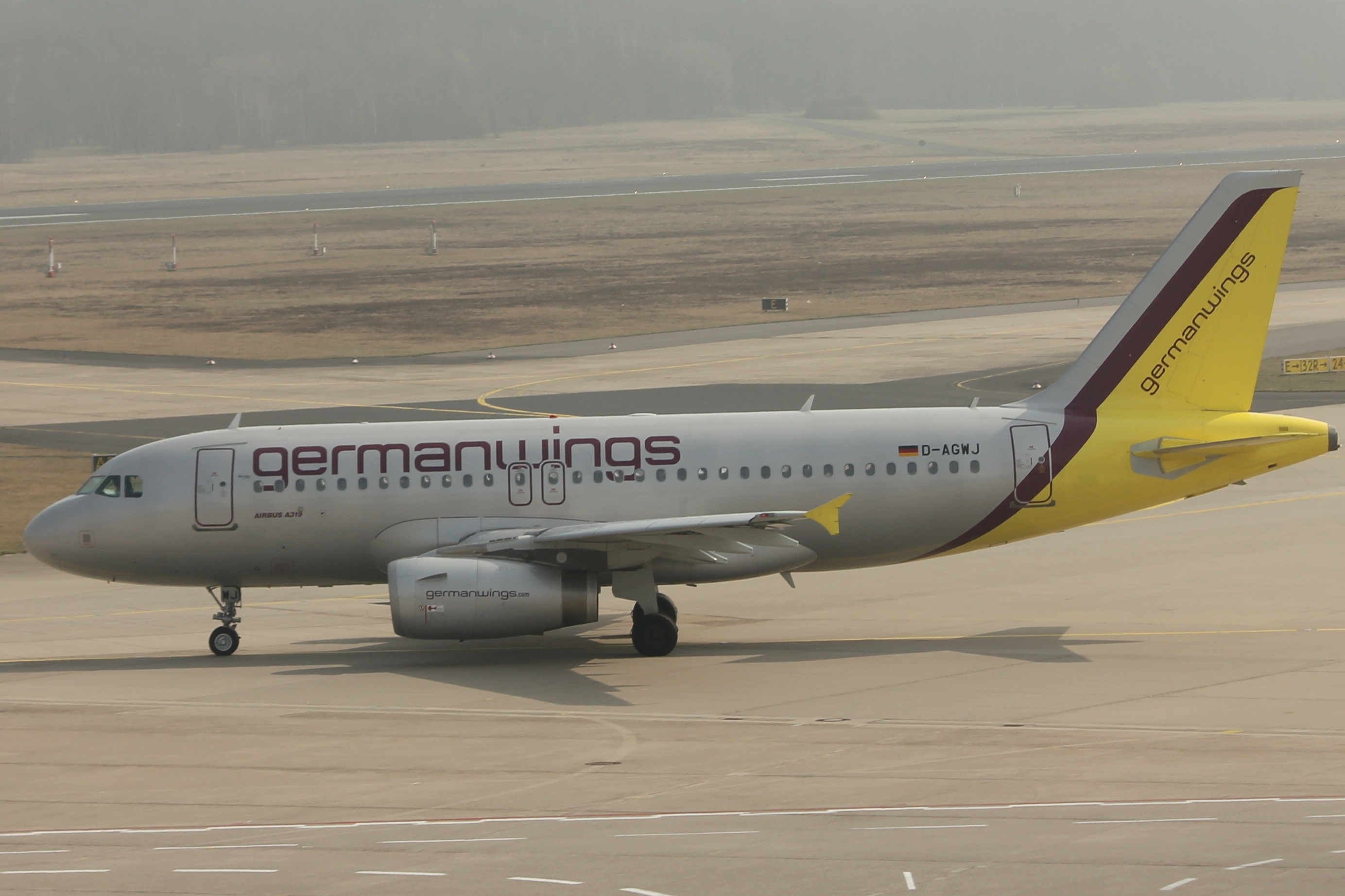 An A319 of Germanwings at Cologne/Bonn Airport